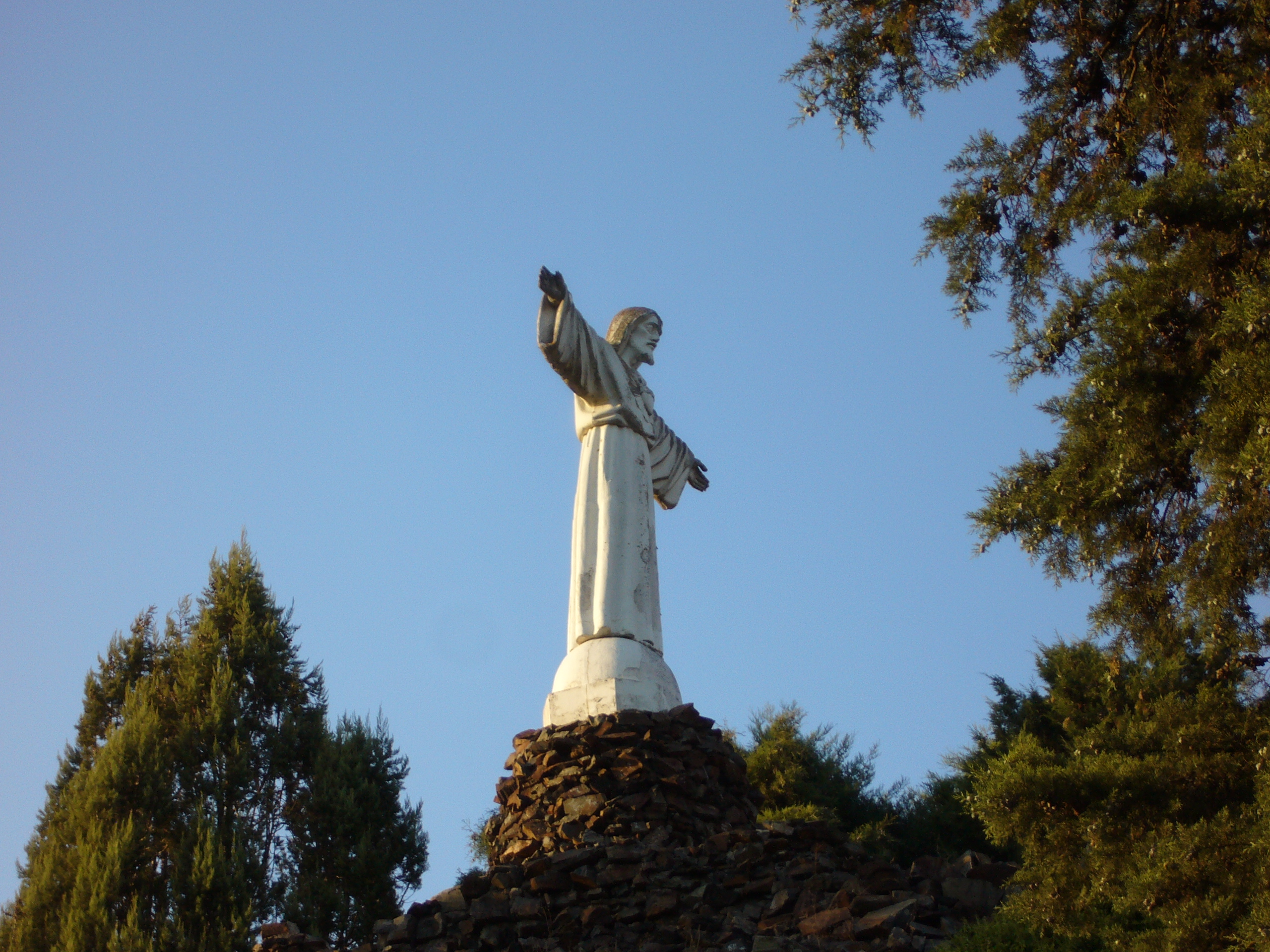 Statue of Jesus at Mirando do Corvo